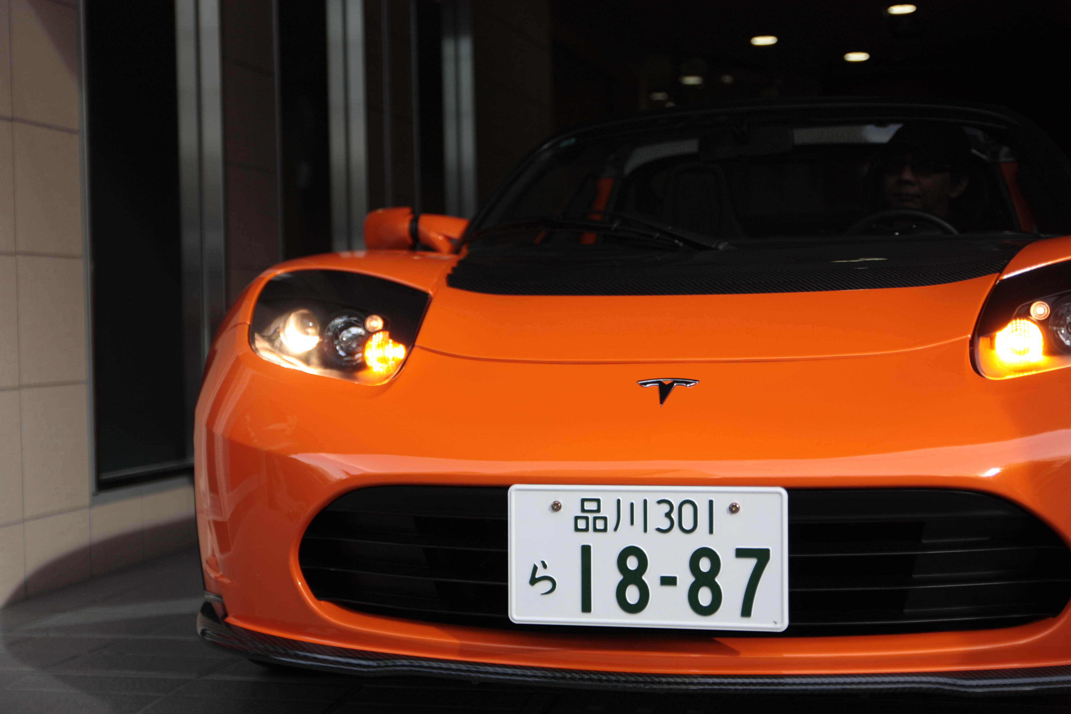 A Tesla Roadster Sport model sporting Shinagawa license plates.